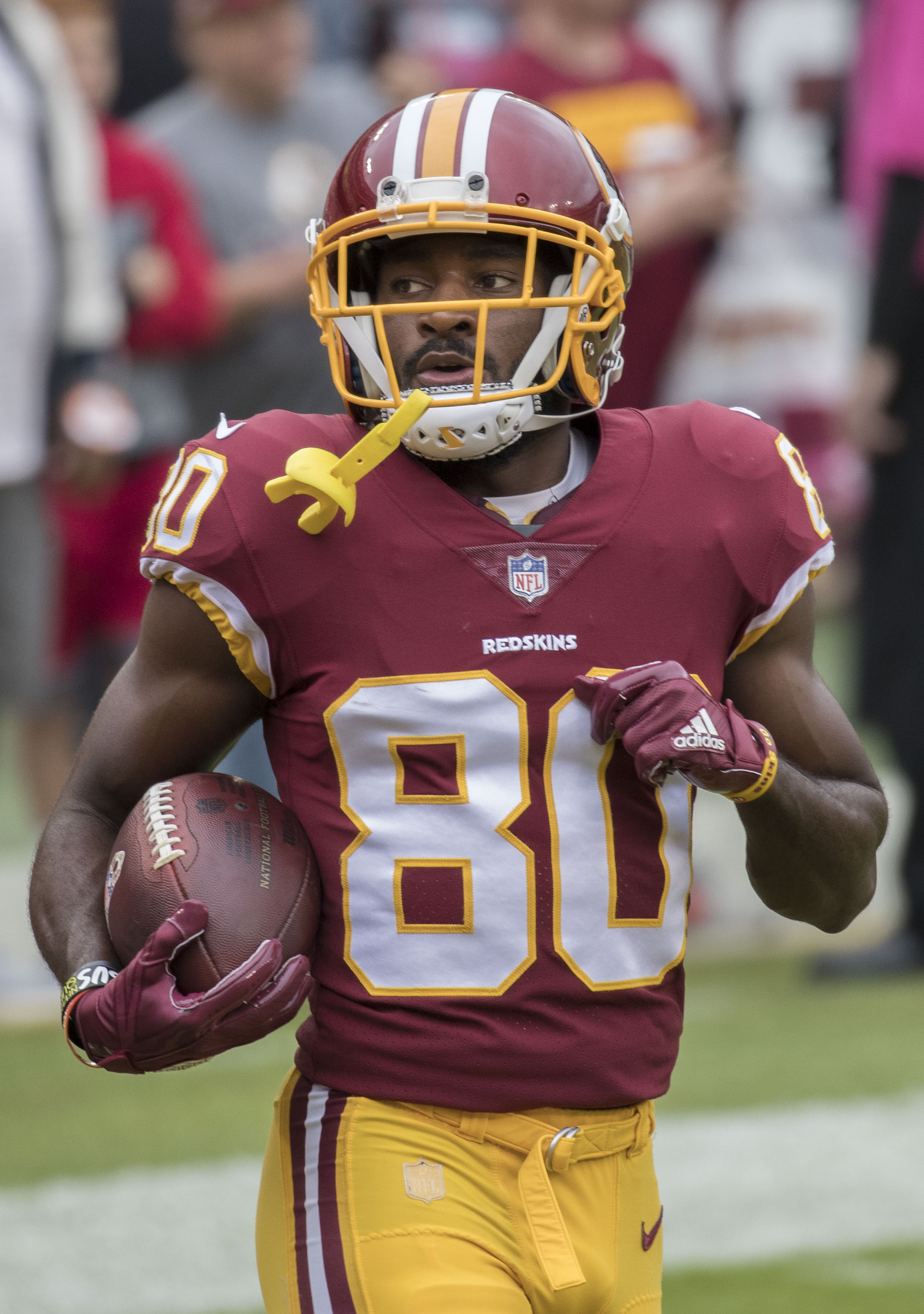 49ers at Redskins 10/15/17